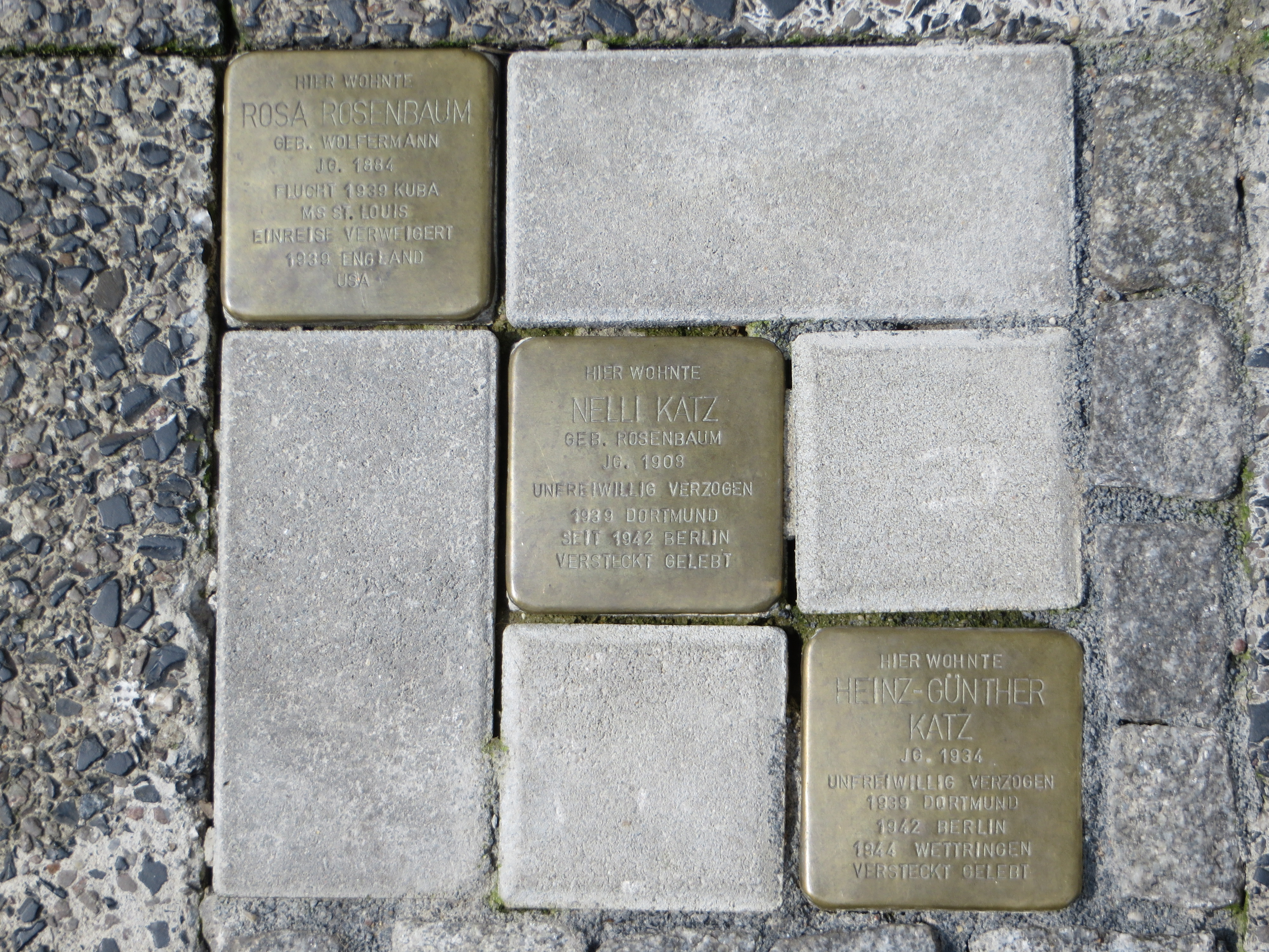 Stolpersteine at house Mozartstraße 12 in Witten, Germany